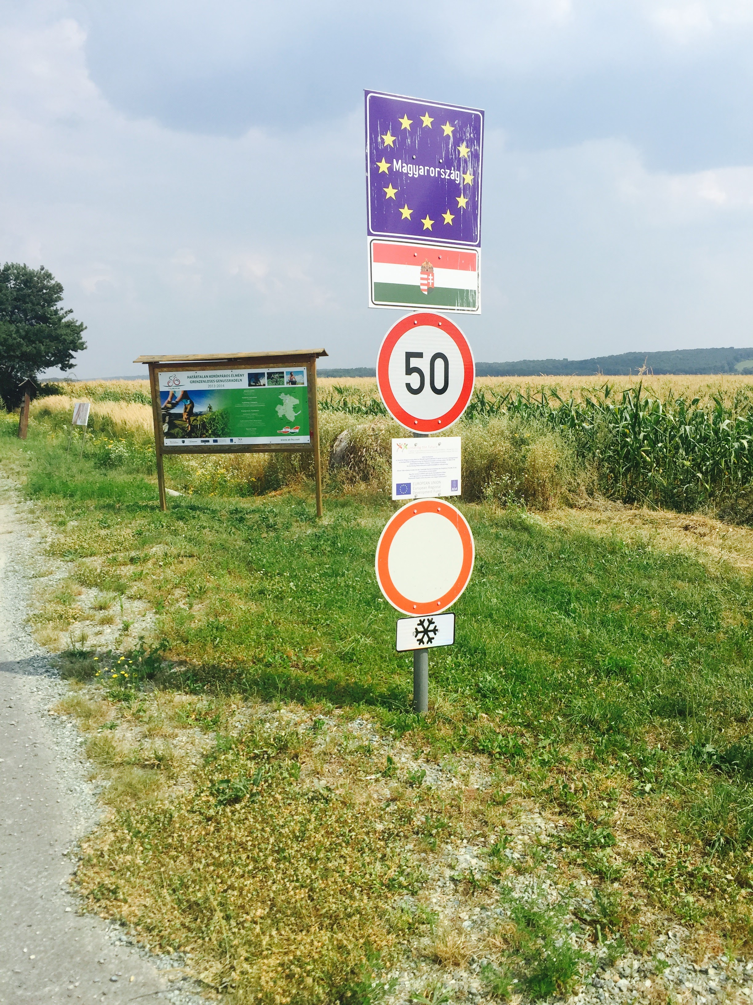 Border Austria Hungary